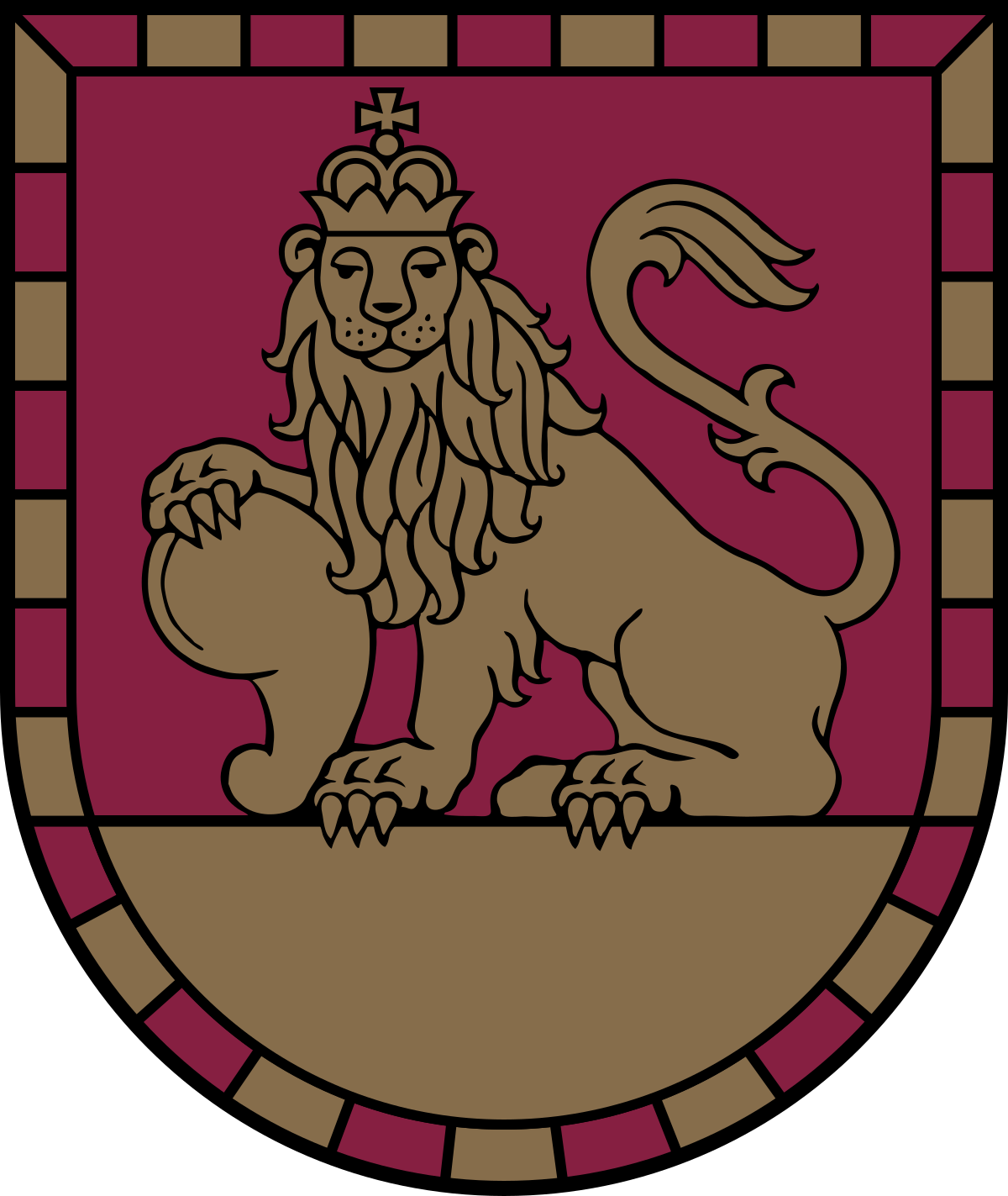 Wappen des Bezirks Rundāle, Lettland.